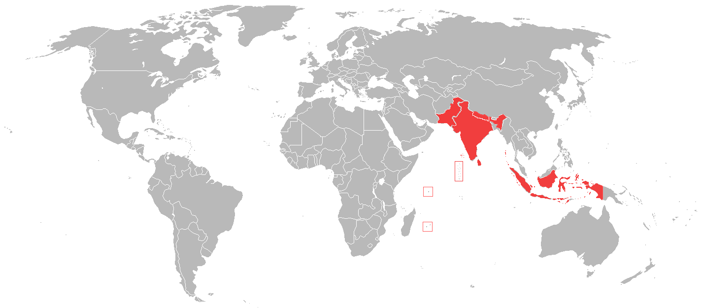 A map showing countries using the Rupee as the official currency.